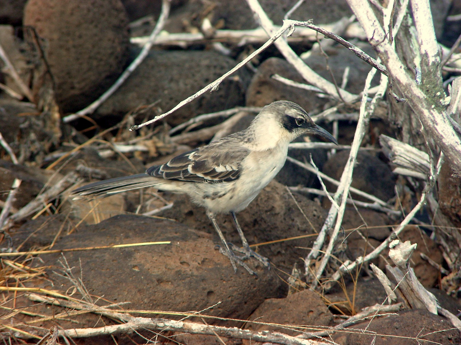 Galápagos Mockingbird (Nesomimus parvulus) standing on a stone. Mimus parvulus